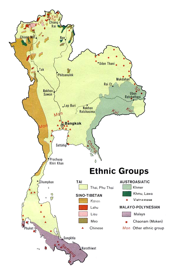 Ethnolinguistic groups of Thailand.